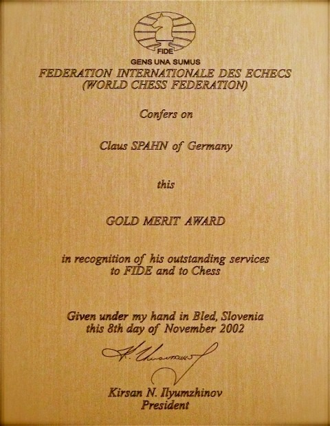 Document: FIDE GOLD MERIT AWARD for Claus Spahn. 8th November 2002 at Bled, signed by Kirsan Ilyumzhinov.